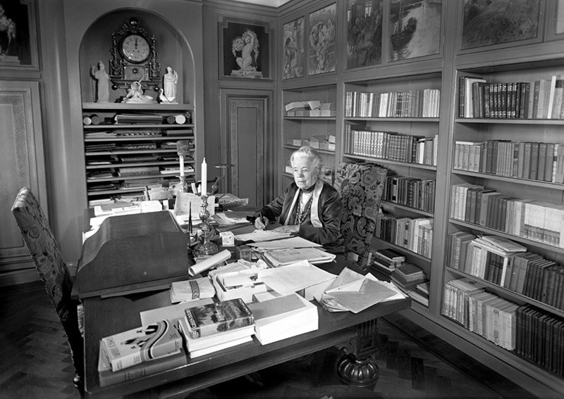 Swedish author Selma Lagerlöf in her workroom at home in the residence Mårbacka.